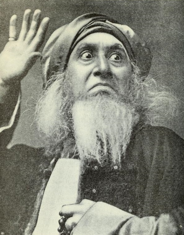 Ermete Novelli